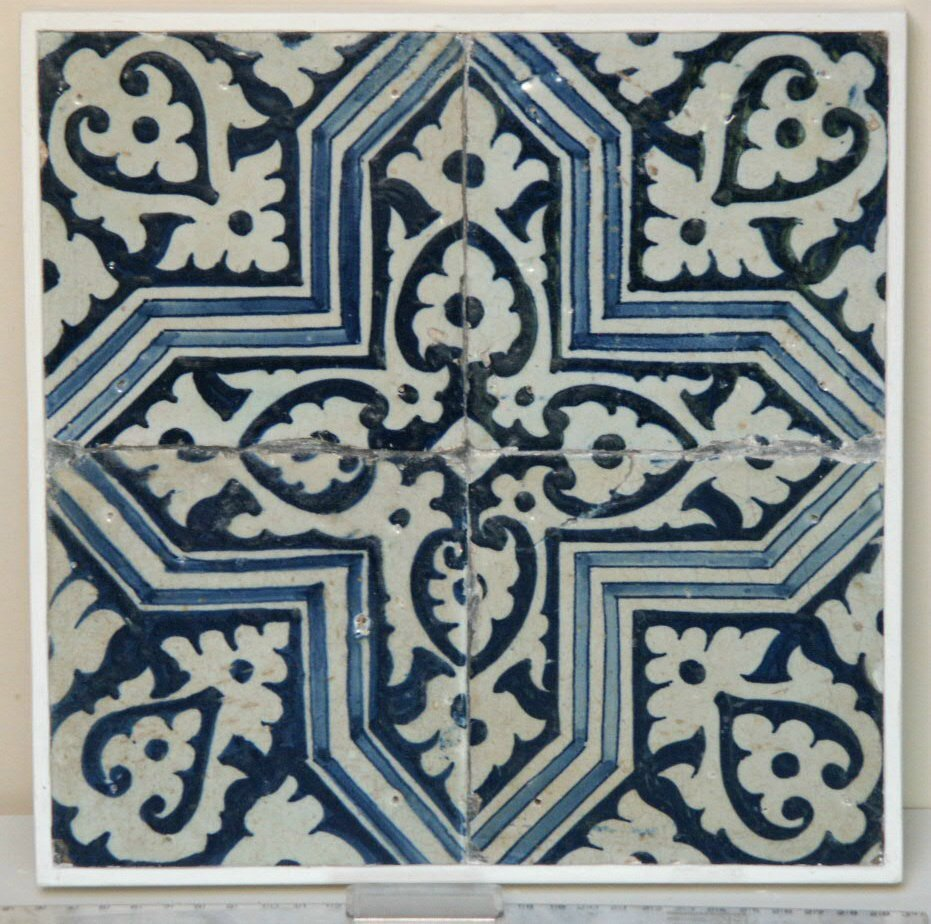 Decorated tiles showing Saint Andrew's Cross.